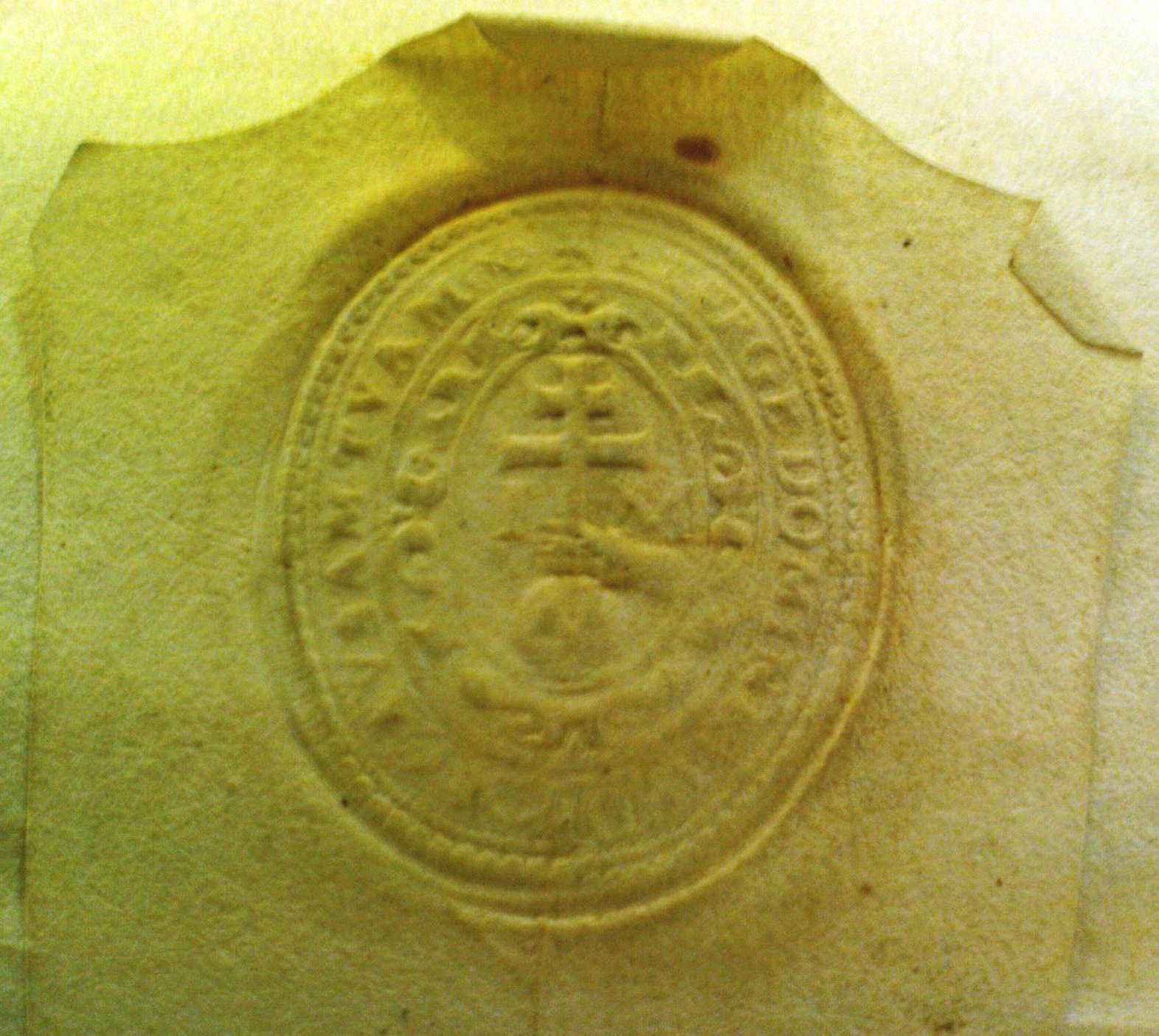 Seal of the Mexican Inquisition.